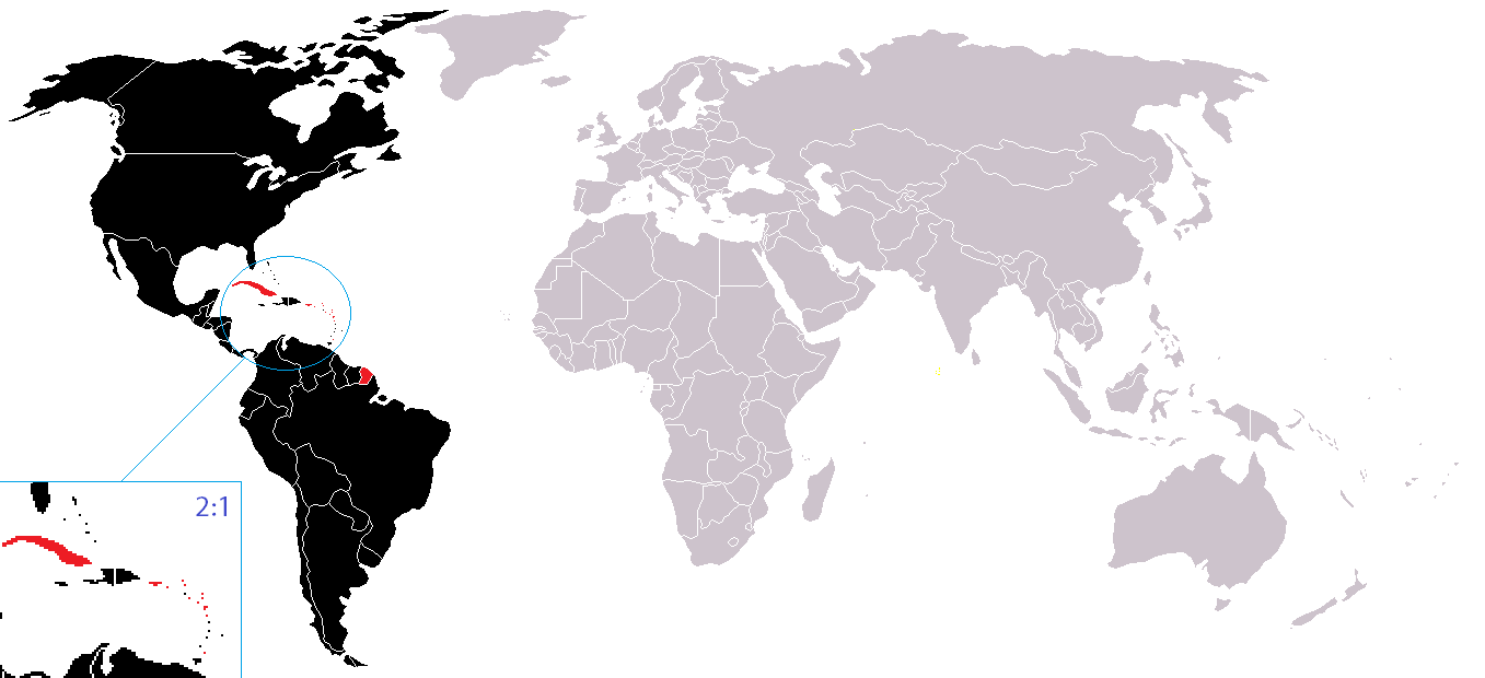 Legend: Black: Member states